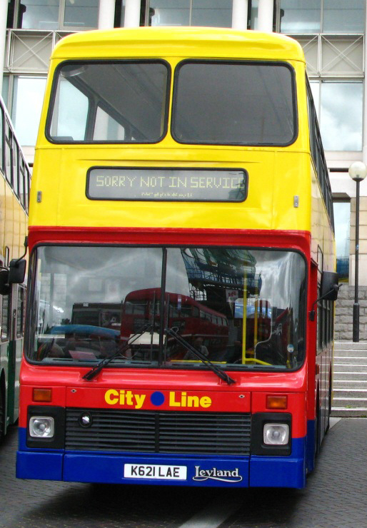 Preserved bus, former Bristol Omnibus City Line-liveried Leyland Olympian 9621 (K621 LAE), at the Bristol Harbourside Bus Rally.